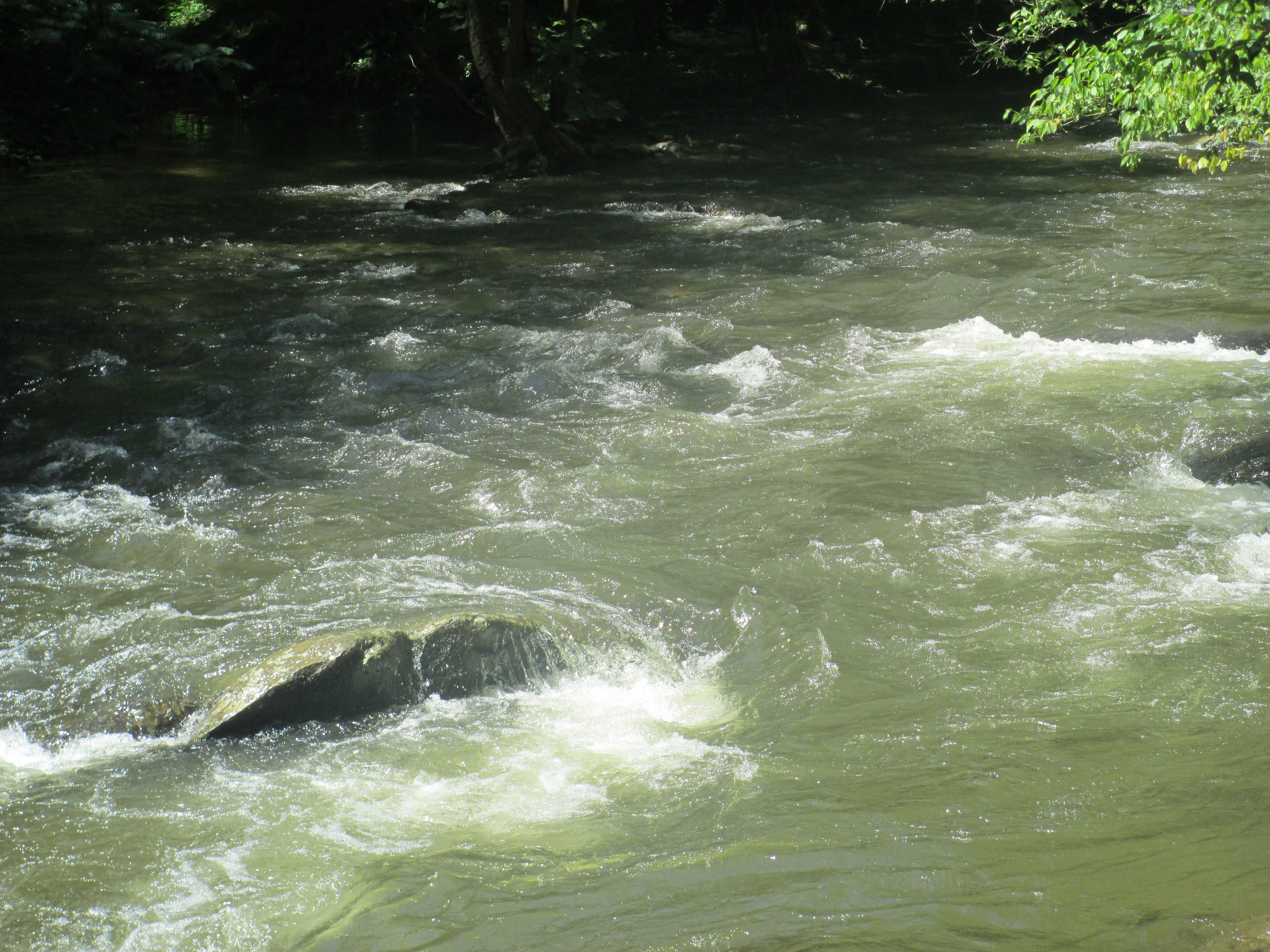 I took photo with Canon camera in Great Smoky Mountains National Park.